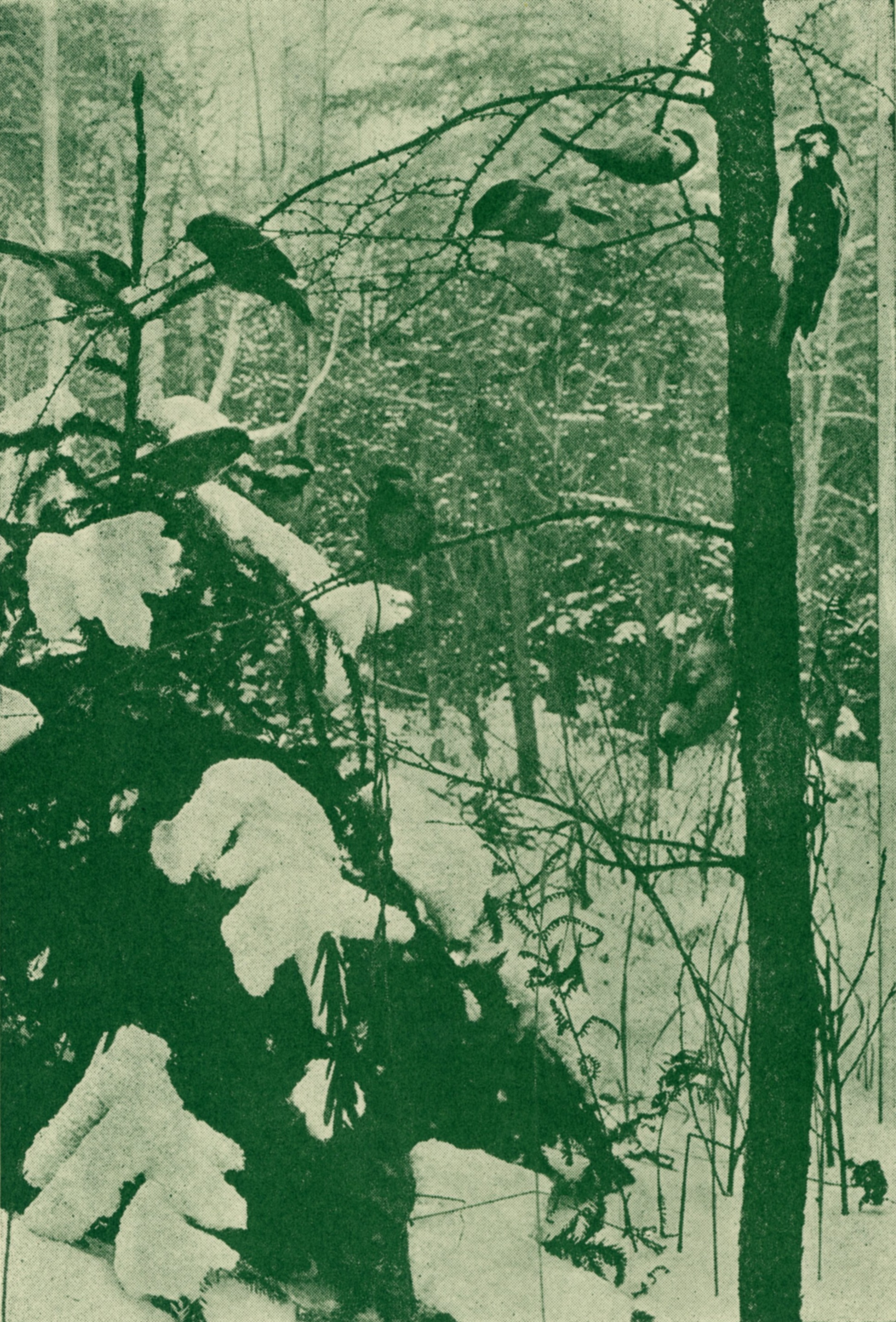 A habitat group diorama at the Zoological Museum (now Bell Museum) of the University of Minnesota, showing Boreal (Hudsonian) and Black-capped Chickadees, a Downy Woodpecker, and a White-breasted Nuthatch